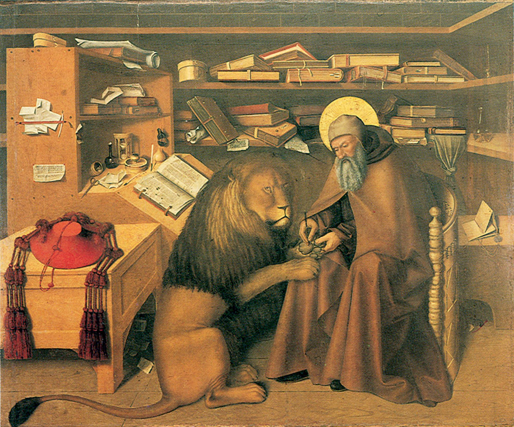 Saint Jerome in his Studylabel QS:Len,"Saint Jerome in his Study" label QS:Lit,"San Girolamo nello studio"